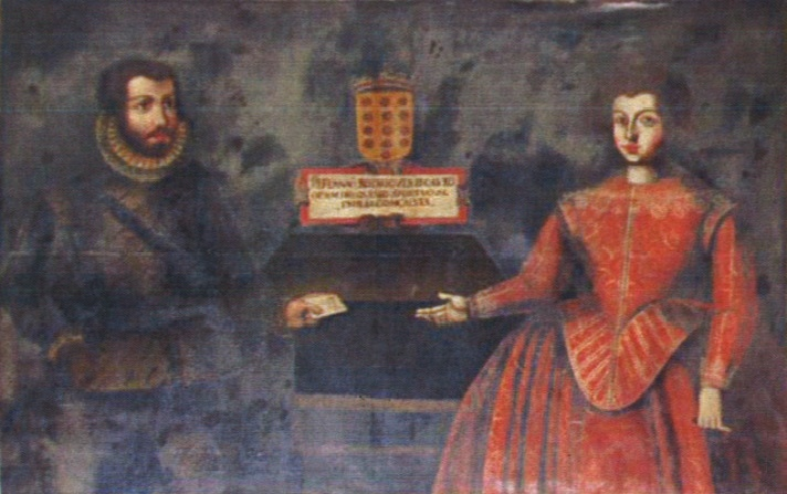 Fernão Rodrigues de Castro, and Emília Gonçalves, in a 17th-century painting in the Palace of the Counts of Ficalho, in Serpa, Portugal.